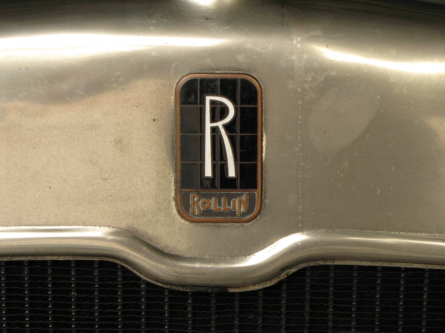 Emblem of a Rollin - oldtimer